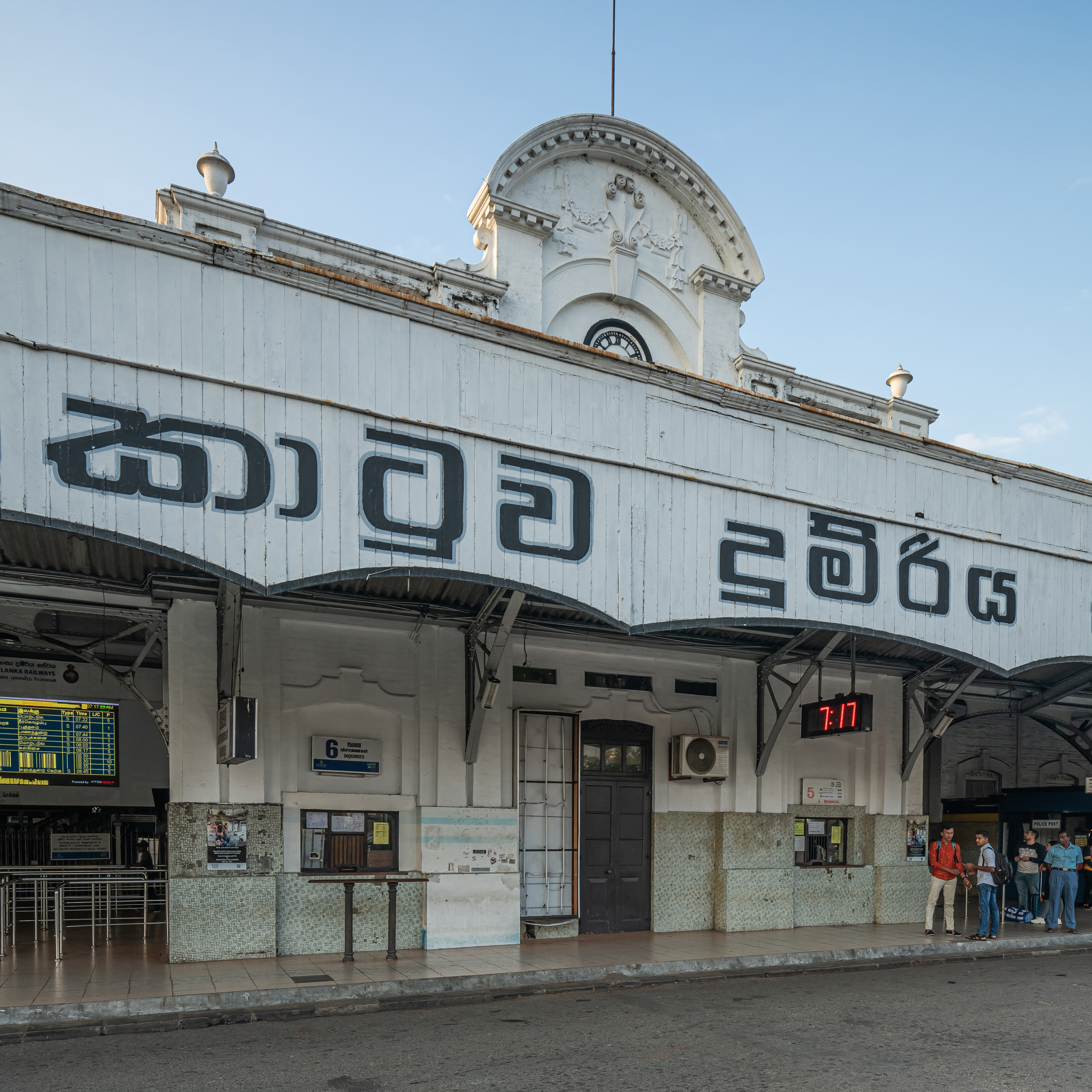 Fort railway station in Colombo, Sri Lanka